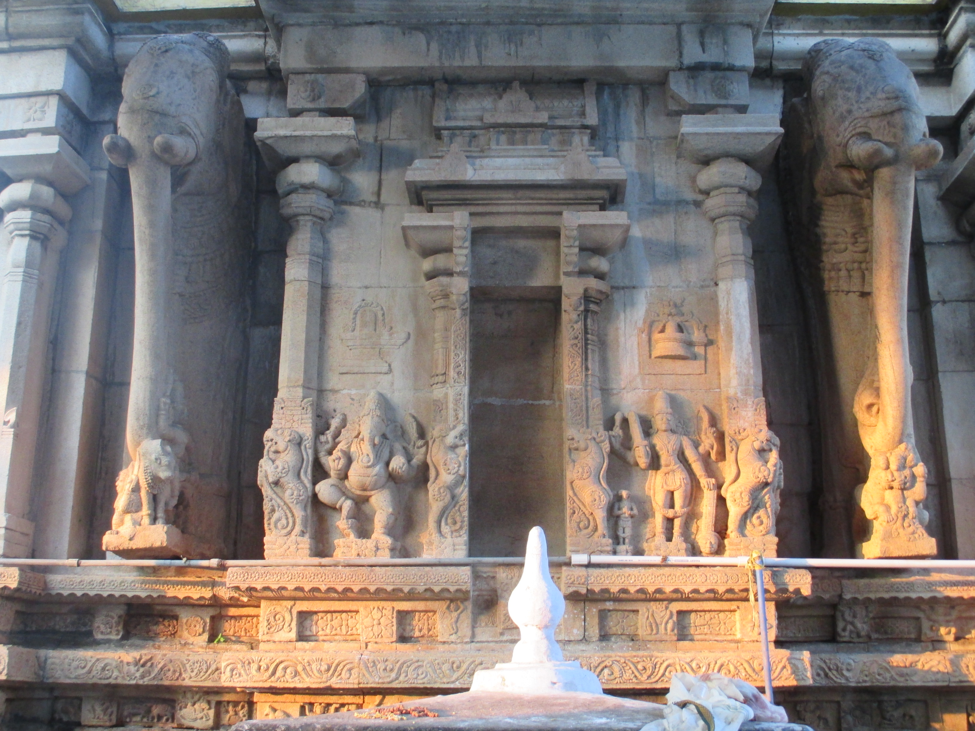 Nanjundeswarar temple, Karamadai